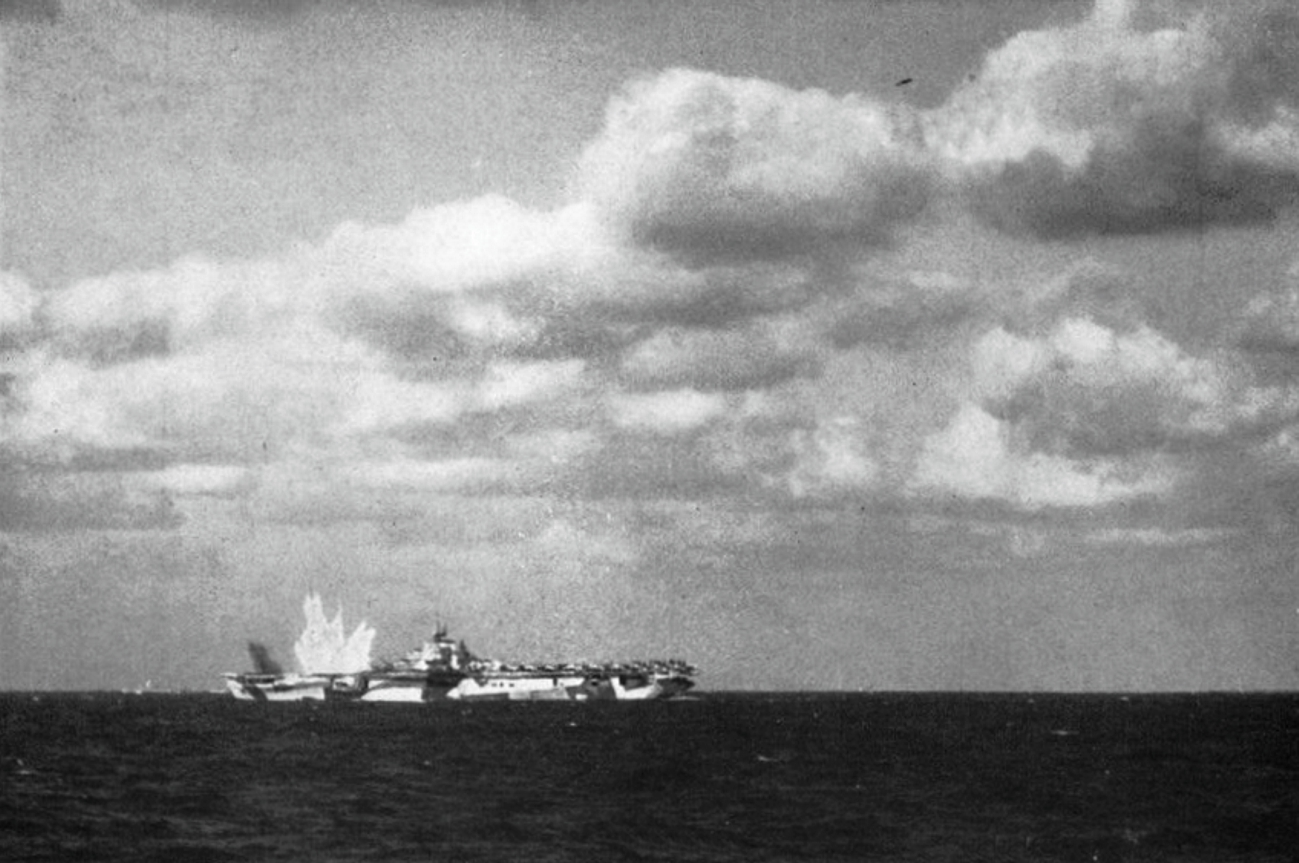 The U.S. Navy aircraft carrier USS Hornet (CV-12) is attacked by a Japanese aircraft off Japan, in 19 March 1945. The bomb missed. Note the aircraft in the upper right part of the photo.